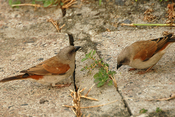 Two Grey-headed Sparrows (Passer griseus) in Uganda